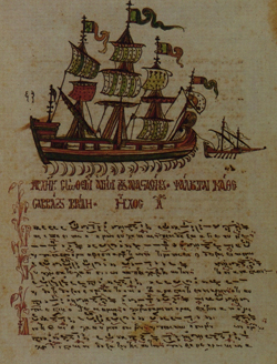 Sheet music from Saint Catherine's Monastery, Mount Sinai